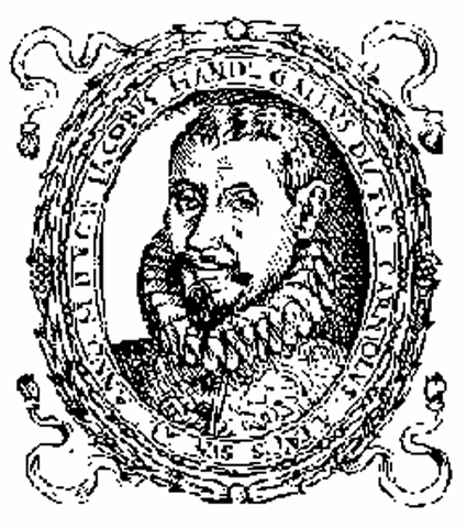 Woodcut portrait of the composer Jakob Petelin Gallus, published in the tenor-voice of Opus musicum, book IV